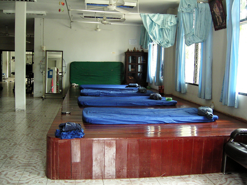 Traditional Thai massage room at Kap Choeng Hospital, Surin Province.